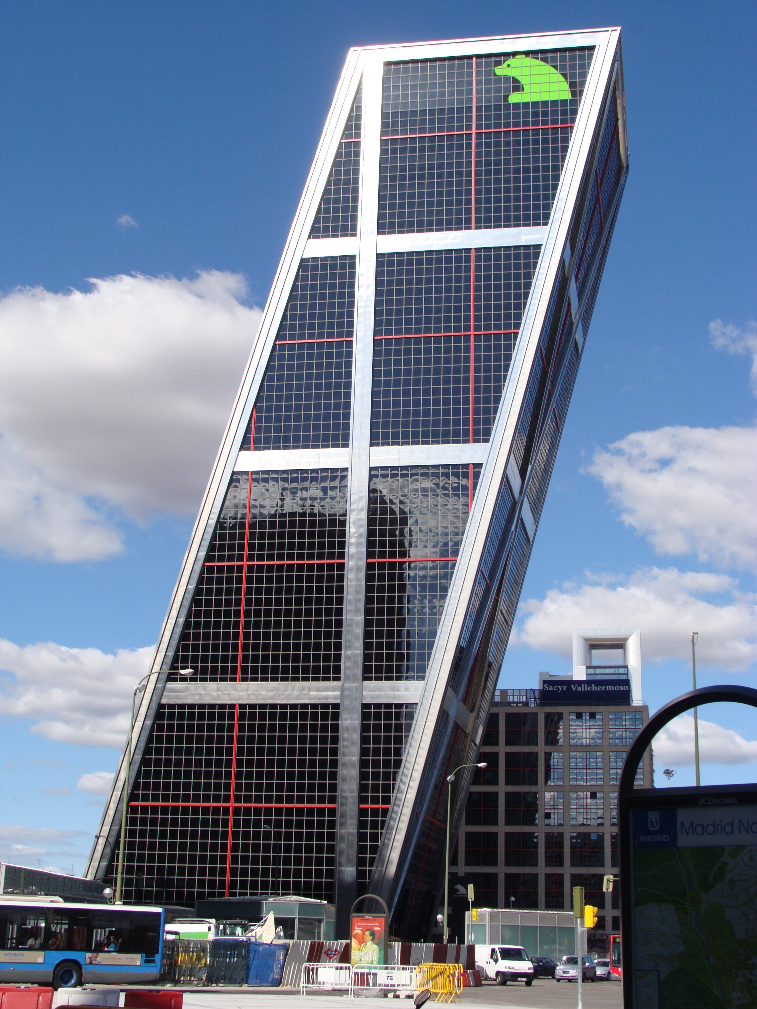 Kio Towers (Puerta de Europa) (Madrid)